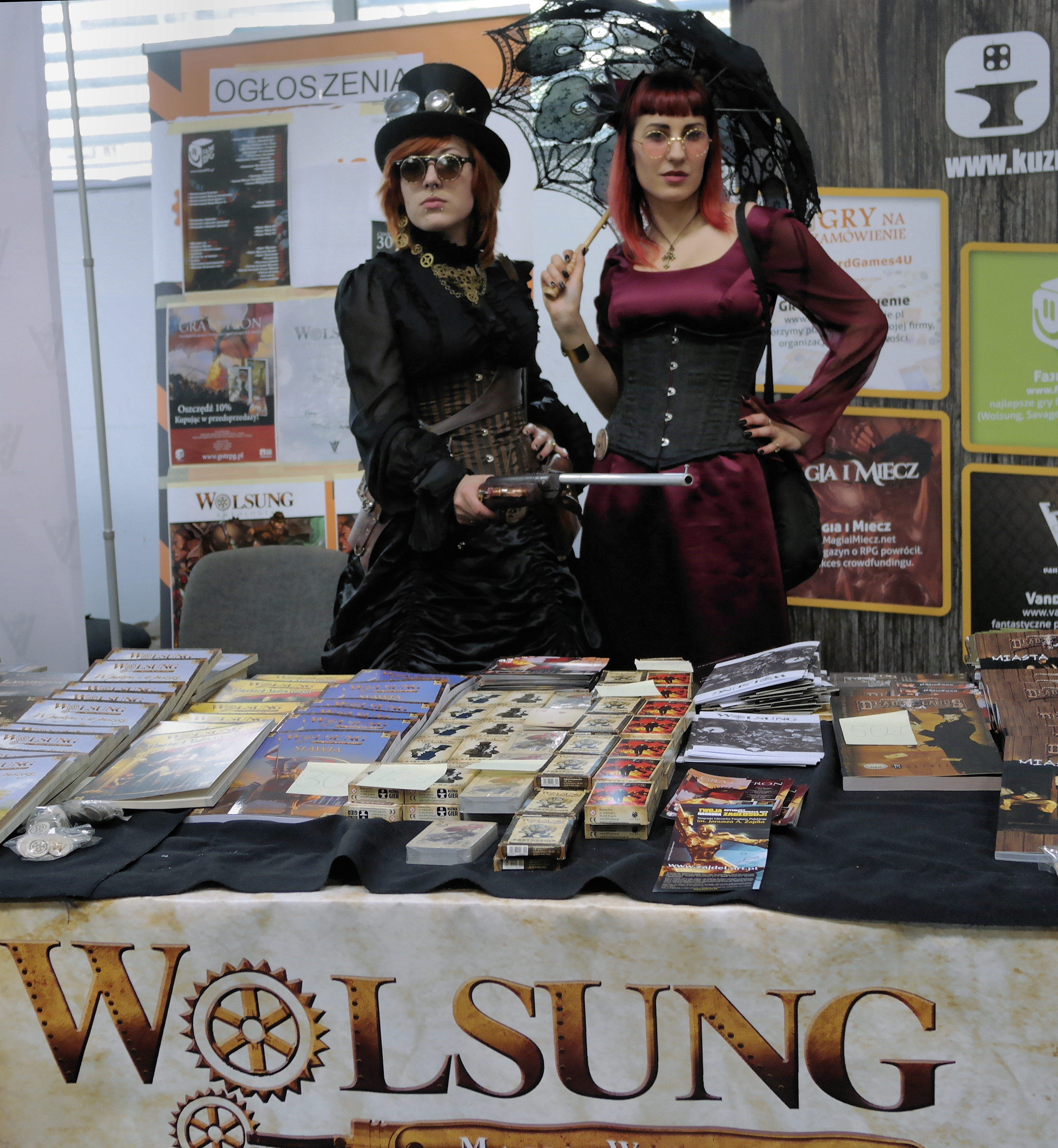 Wolsung, Pyrkon, Poznań